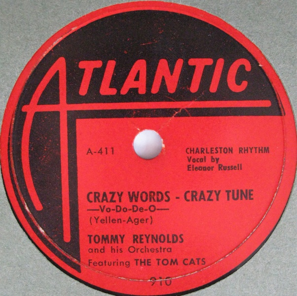 Tommy Reynolds % The Tom Cats: Crazy Words, Crazy Tune